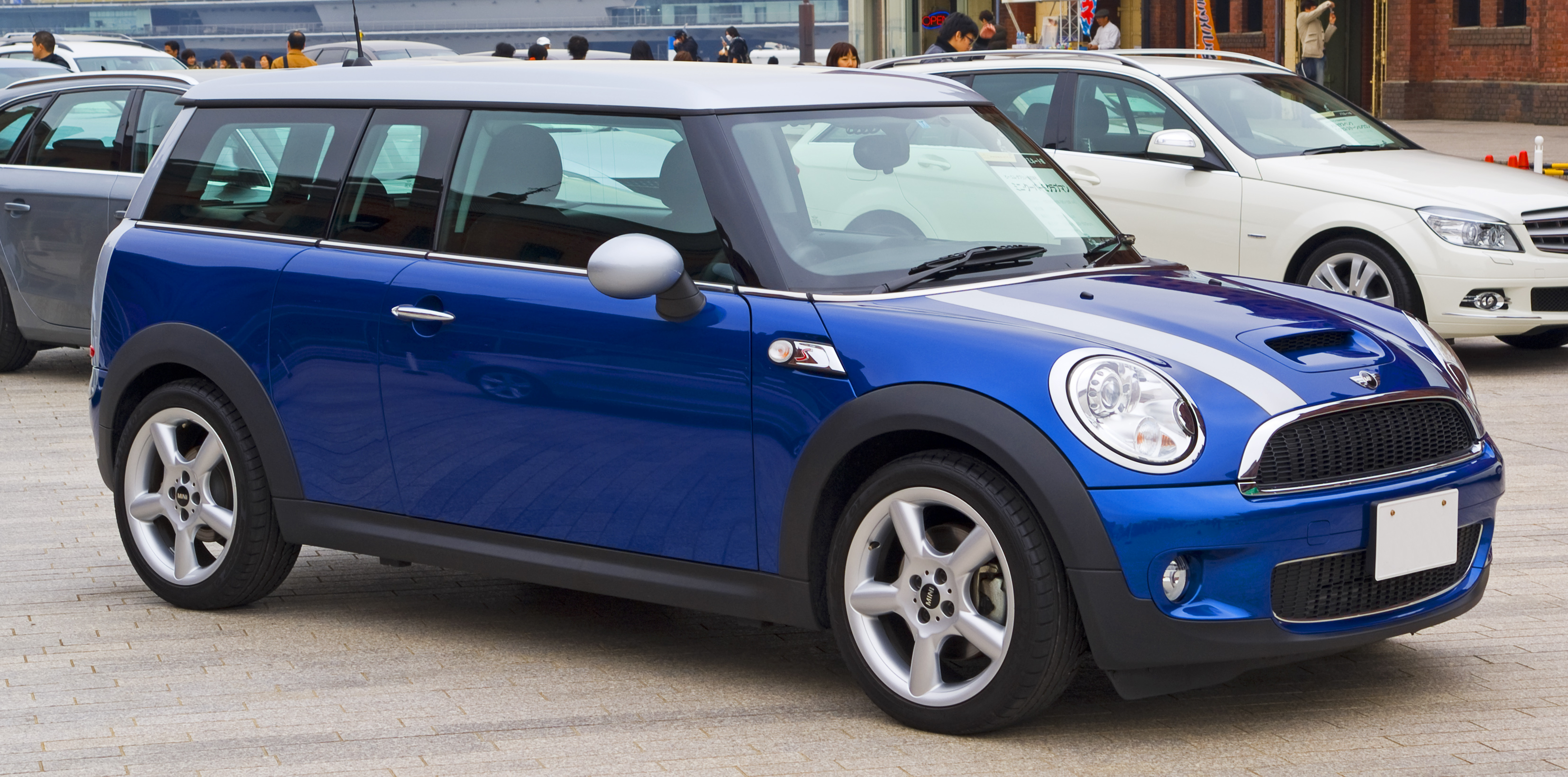 MINI Cooper S Clubman photographed in Yokohama Red Brick Warehouse